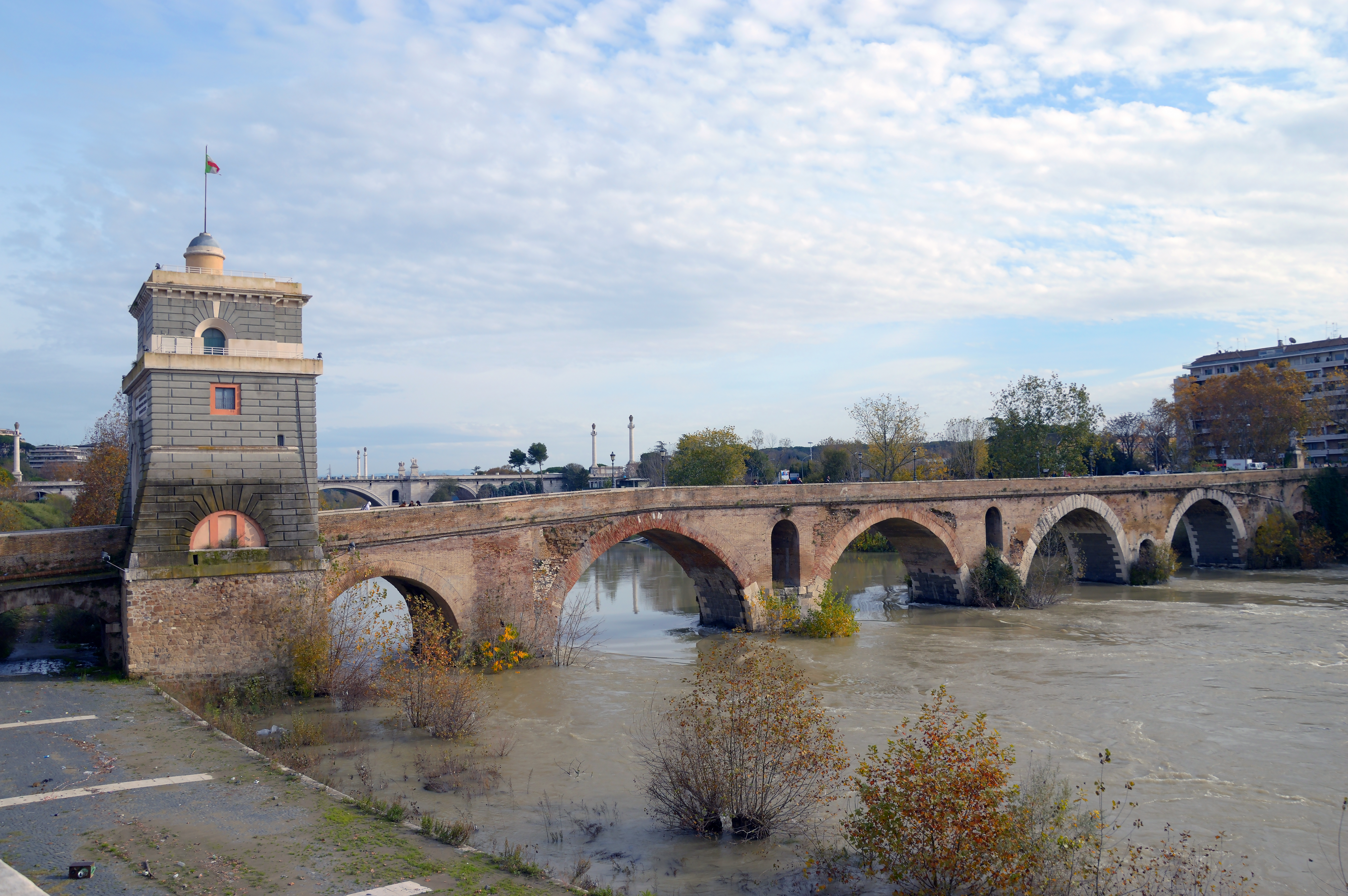 Ponte Milvio